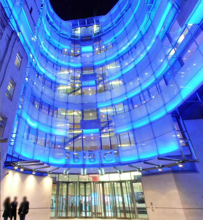 The BBC's Official Broadcasting Building.